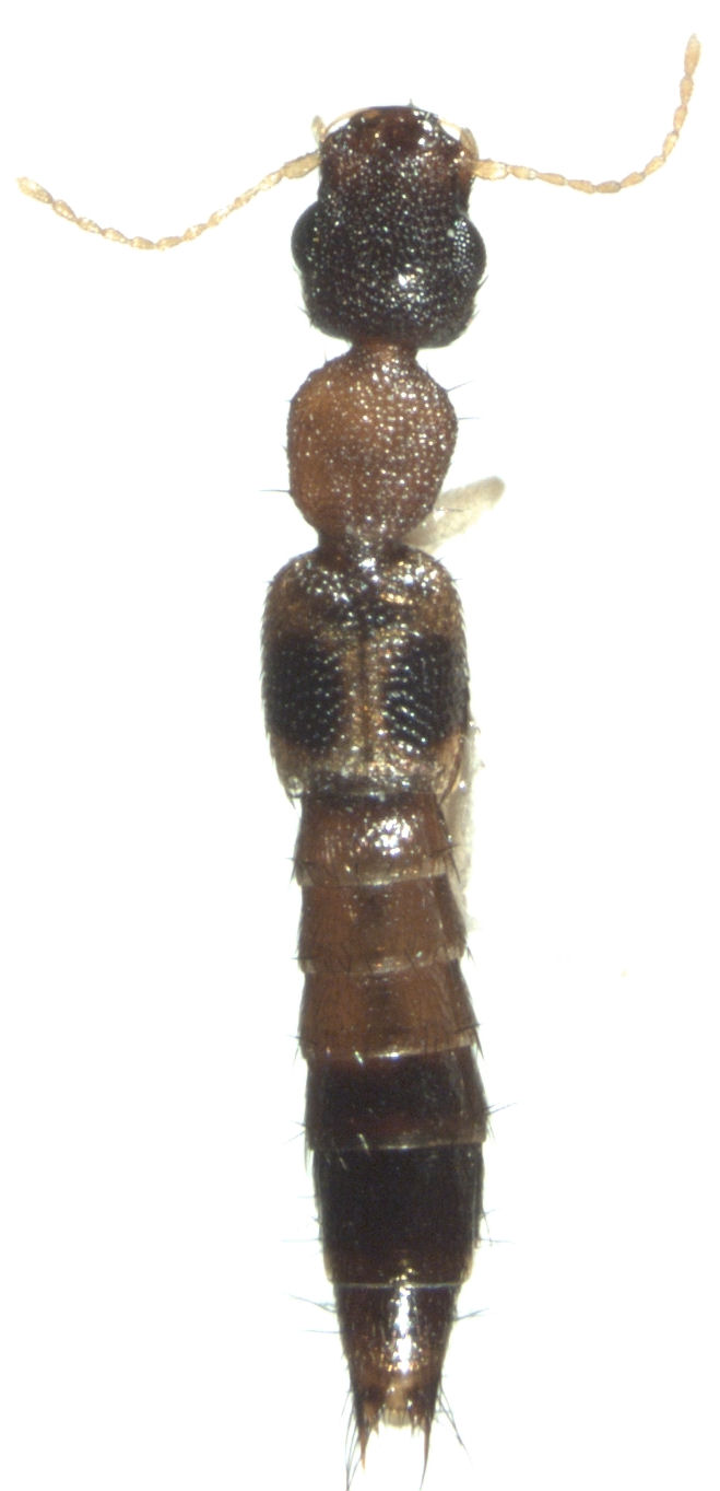 adult Astenus guttula from New Zealand